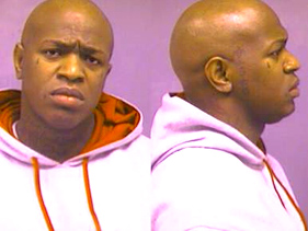 Mugshot of Birdman taken in November 2007.